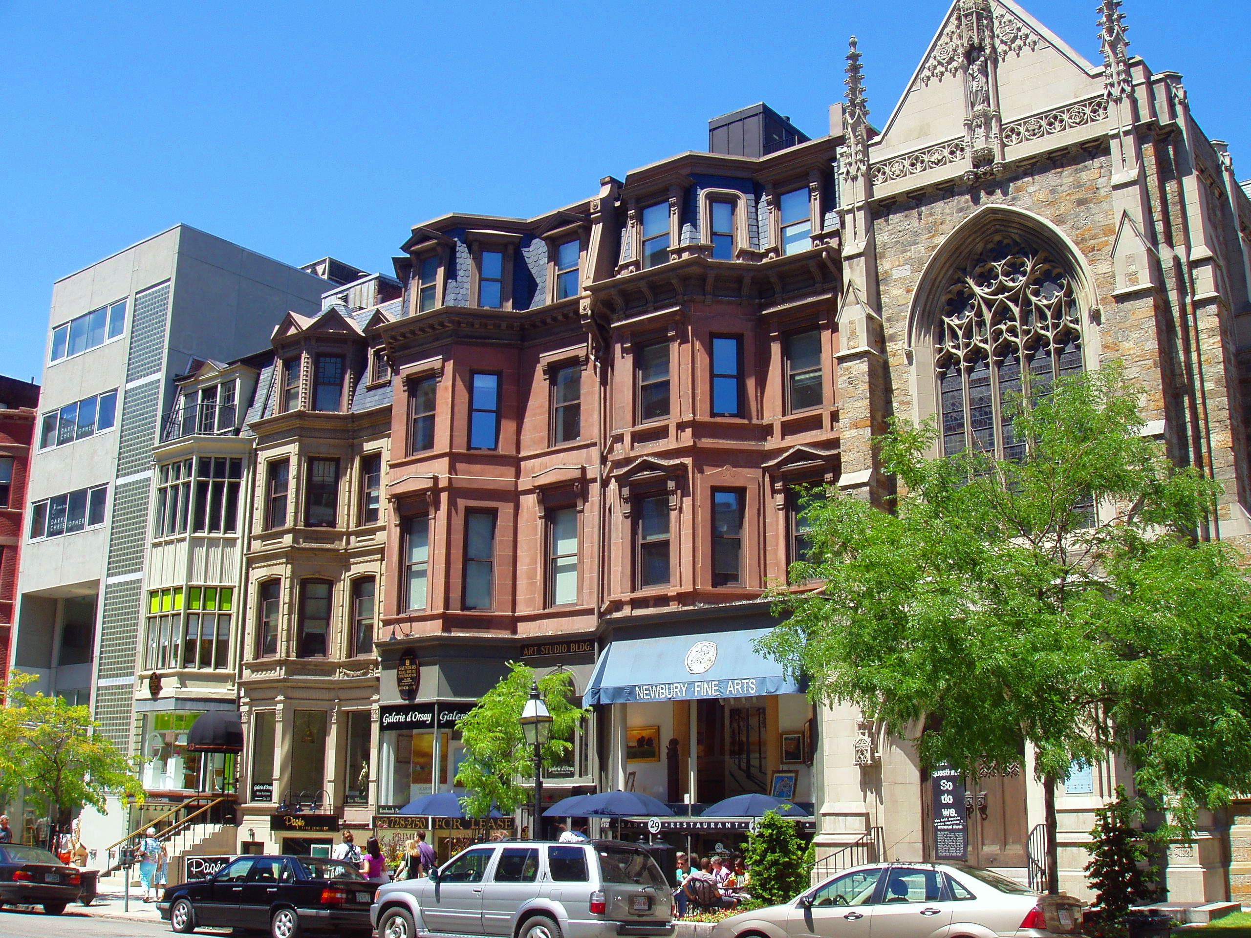 A mix of architectural styles along Newbury Street near the Public Garden, Boston, Massachusetts. Photograph taken by me, July 2005. From left to right 37 Newbury, 35 Newbury, 33 Newbury, 27 Newbury, 25 Newbury, and the Emmanuel Episcopal Church/Central Reform Temple at 15 Newbury.